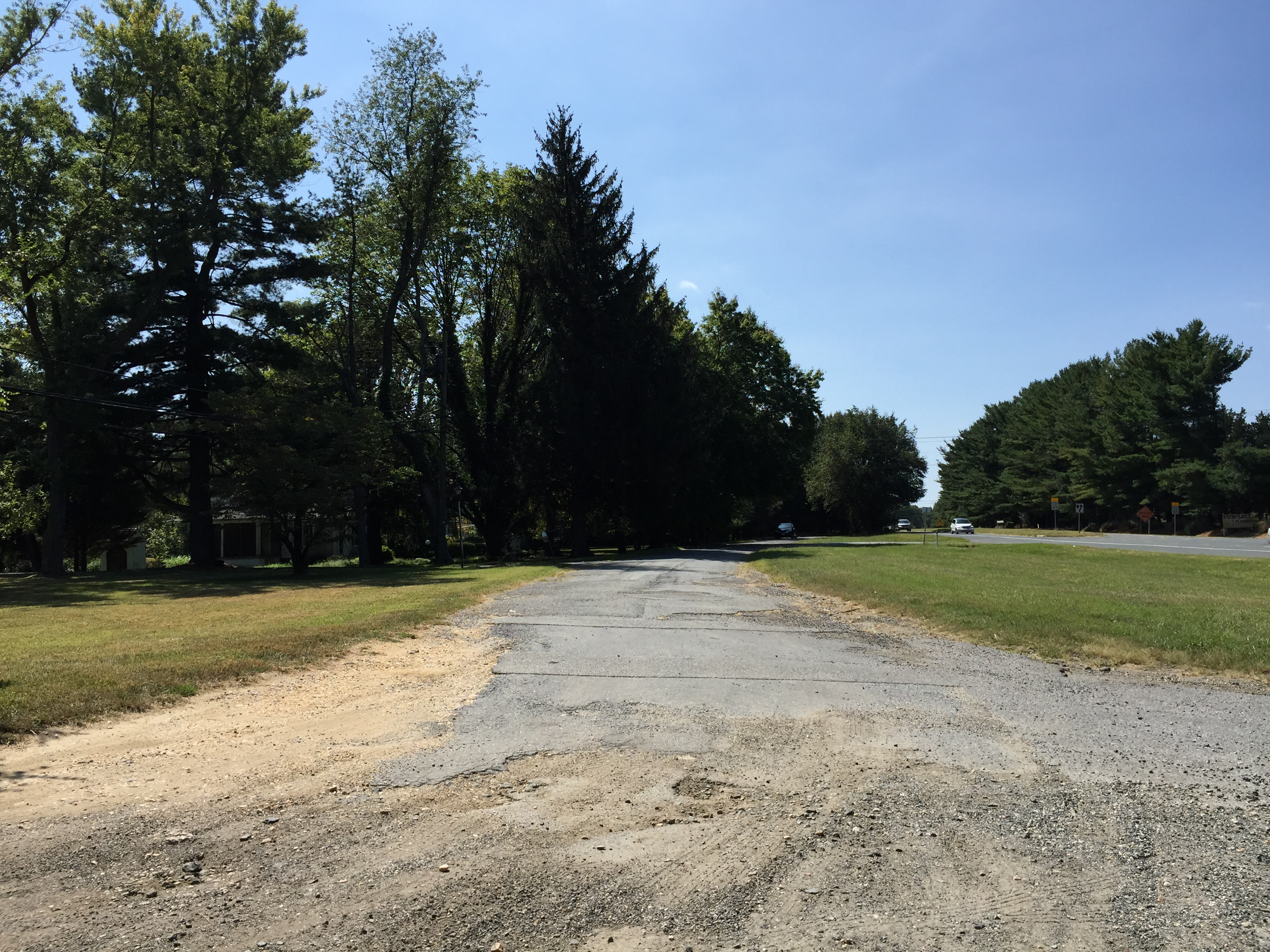 View south along Maryland State Route 974 (Old Enterprise Road) at Sondberg Lane in Woodmore, Prince Georges County, Maryland